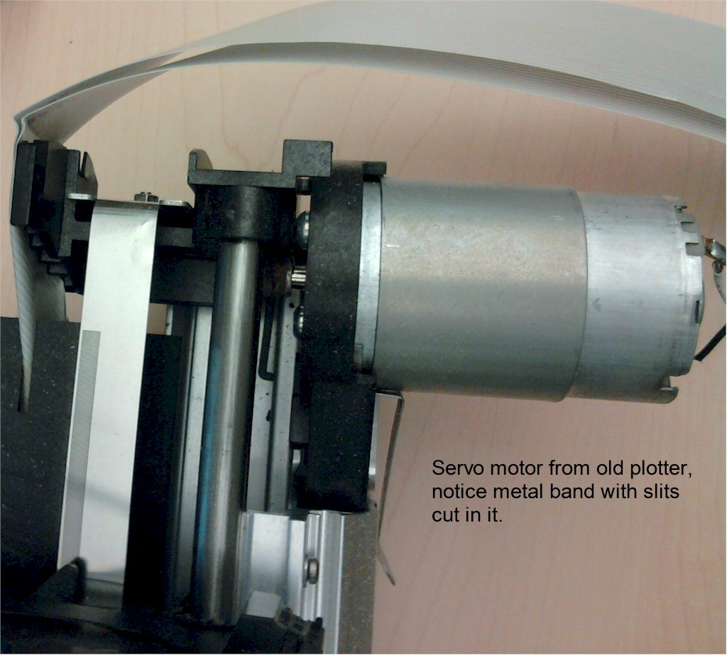 servo motor from hp plotter (big one)